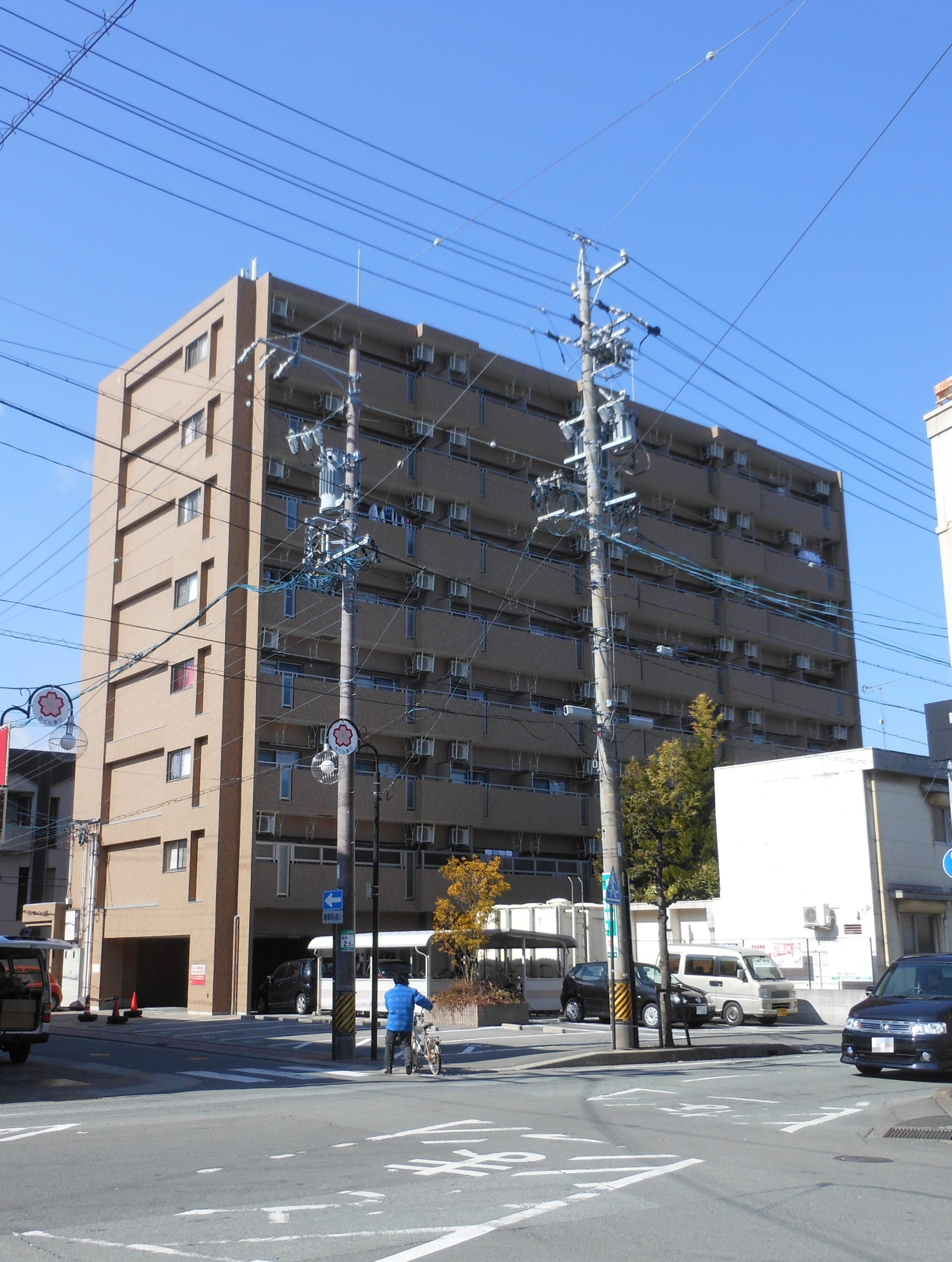 This is the mansion named "Maison Boulogne Ichinoki" in Ise, Mie, Japan. Here was the cinema "Sekaikan."